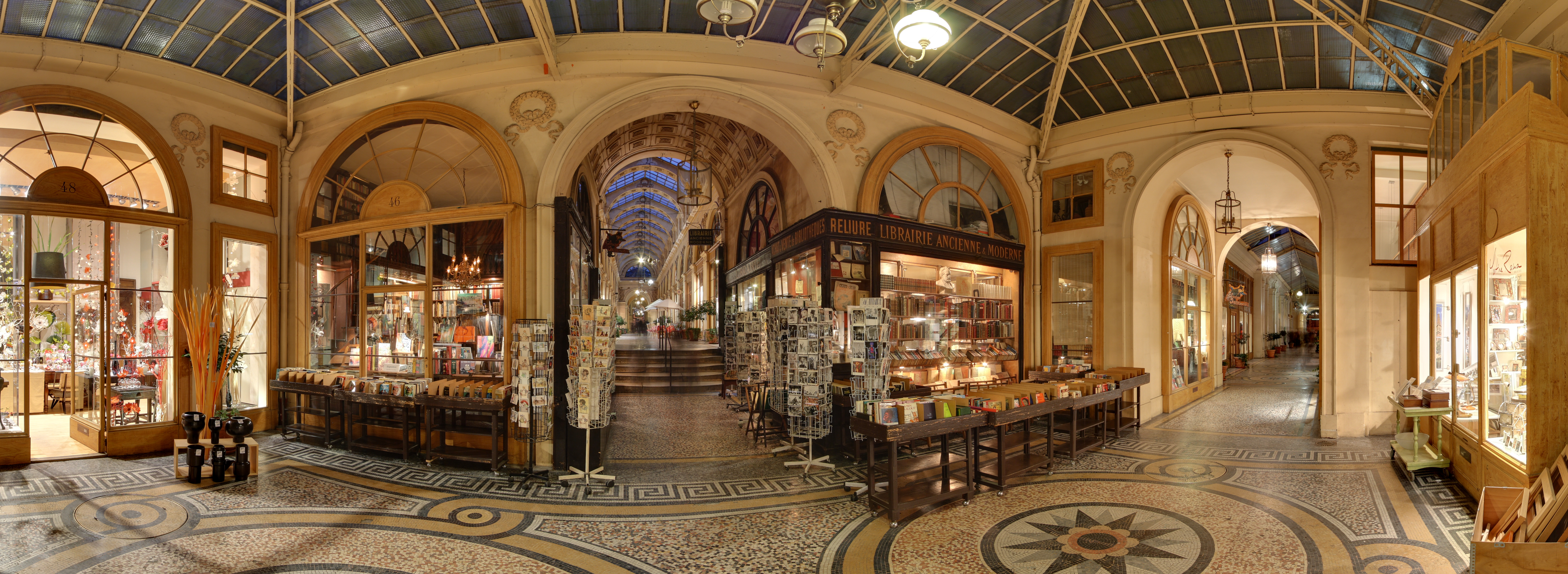 Vivienne galleria, in the 2nd arrondissement of Paris. This panorama is made from 6 portrait pictures taken at 10mm (16mm in 35mm equiv.), f/8.0 and ISO 100. 3 exposures were blended to extend dynamic range and keep details in heterogeneously lit areas. All work was done with Hugin, Enblend, Enfuse and Gimp.